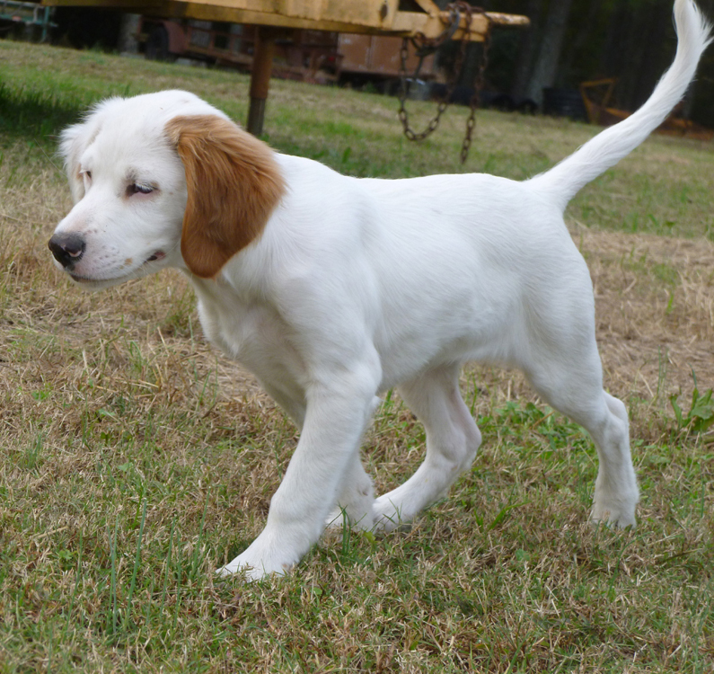 A solid point from a young English Setter female